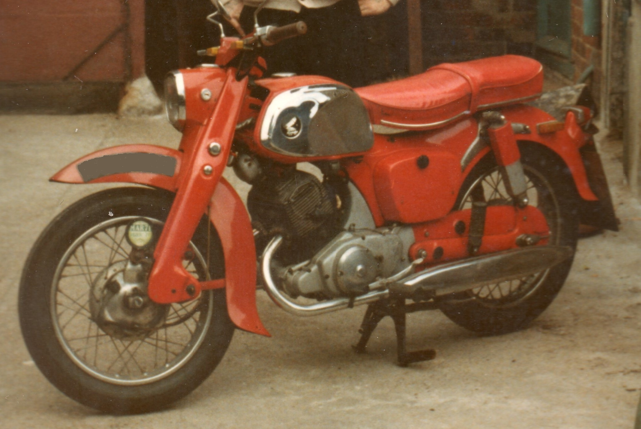 Photo of Honda Benly C92 125cc